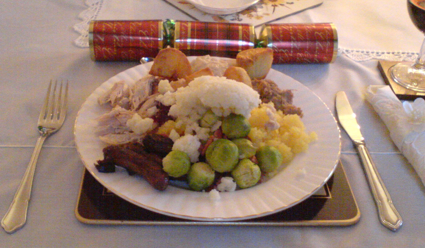 Plate of: roast turkey, roast potatoes, mashed potatoes, mashed turnip, chipolatas, Brussels sprouts, bread sauce, redcurrant jelly, sage and onion stuffing; Date:2006; Location:Scotland